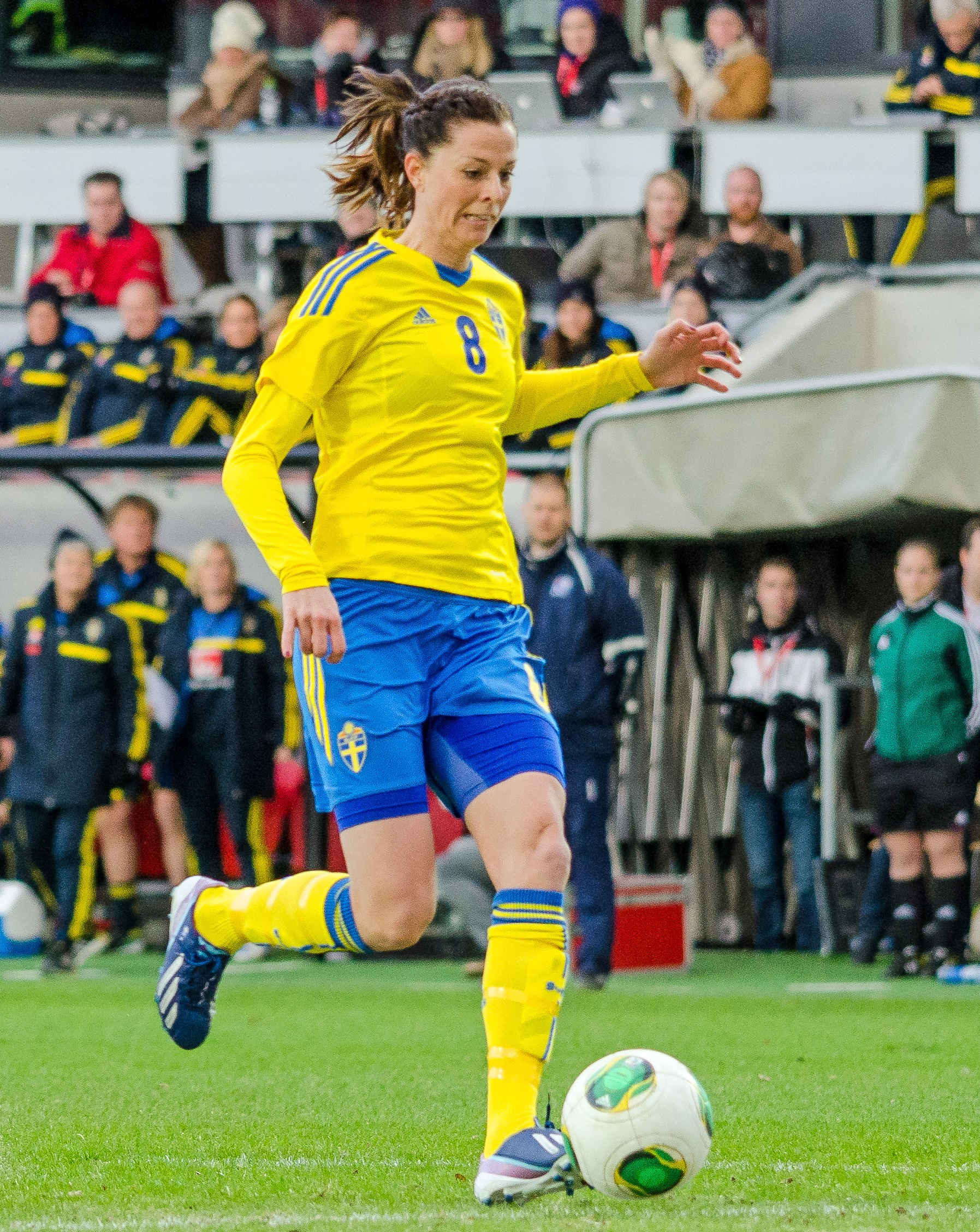 Striker Lotta Schelin playing for the Swedish Women's National team in the 2-0 victory over Iceland at Myresjöhus Arena, 6 April 2013.